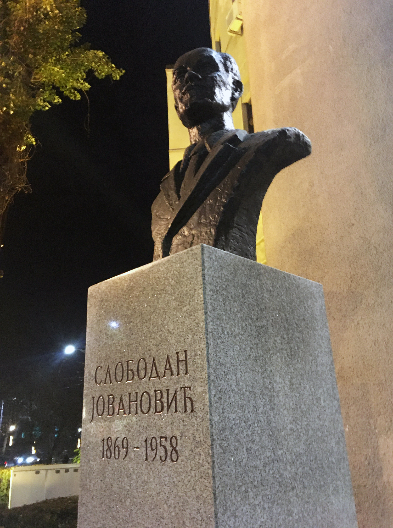 Bust of Slobodan Jovanović in front of Faculty of law in Belgrade